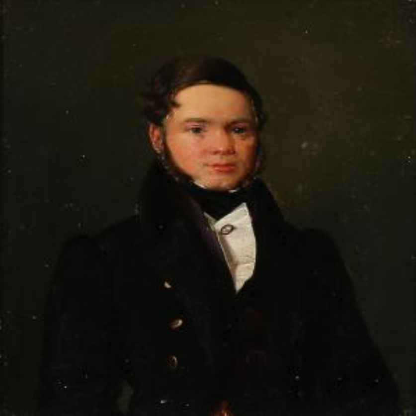 Portrait of Assistenshusforvalter Holm